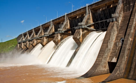 La Central Hidroeléctrica Akaray, oficialmente Presa de Acaray administrada por la Administración Nacional de Electricidad (ANDE) de Paraguay tiene represado al río Acaray. La cota de la represa es de 185.3 metros y aguas abajo es de cota 115 metros.